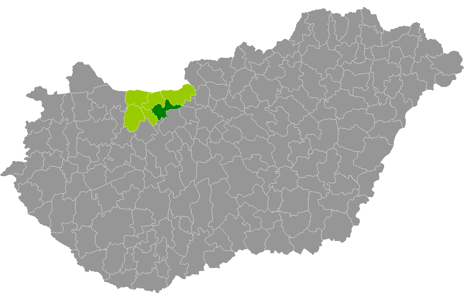 Location of Tatabánya District, Komárom-Esztergom, Hungary